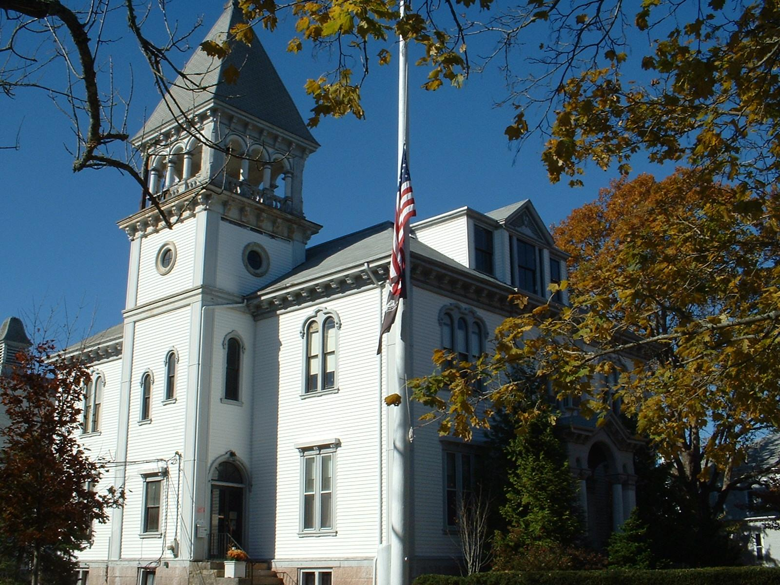 Town Hall of Marion, Massachusetts.